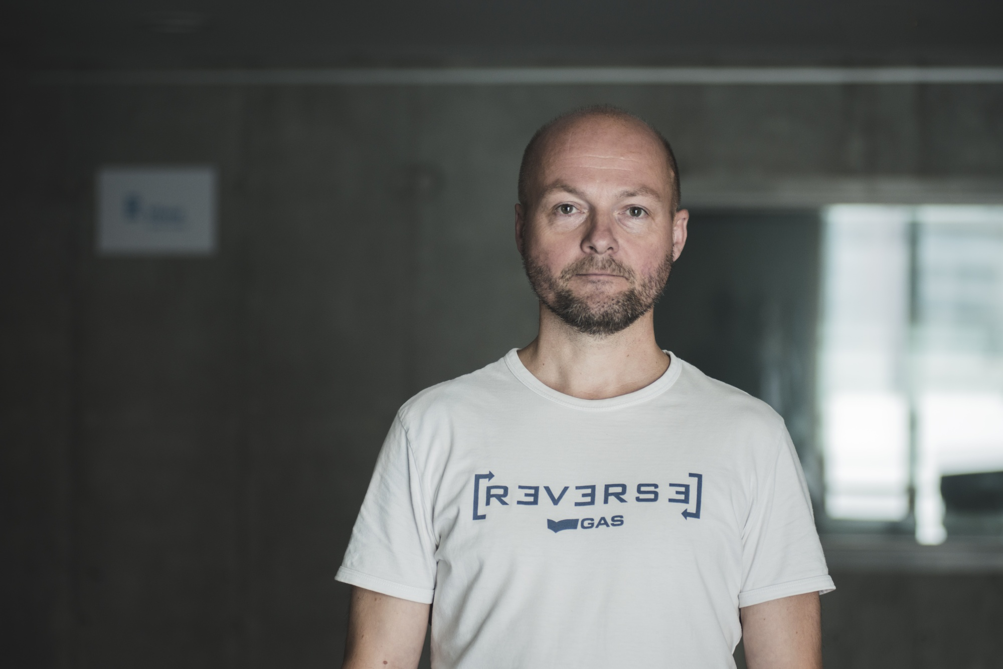 Aleš Březina, Czech composer and musicologist.